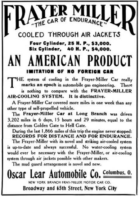 Oscar Lear Automobile Company of Columbus, Ohio - 1906